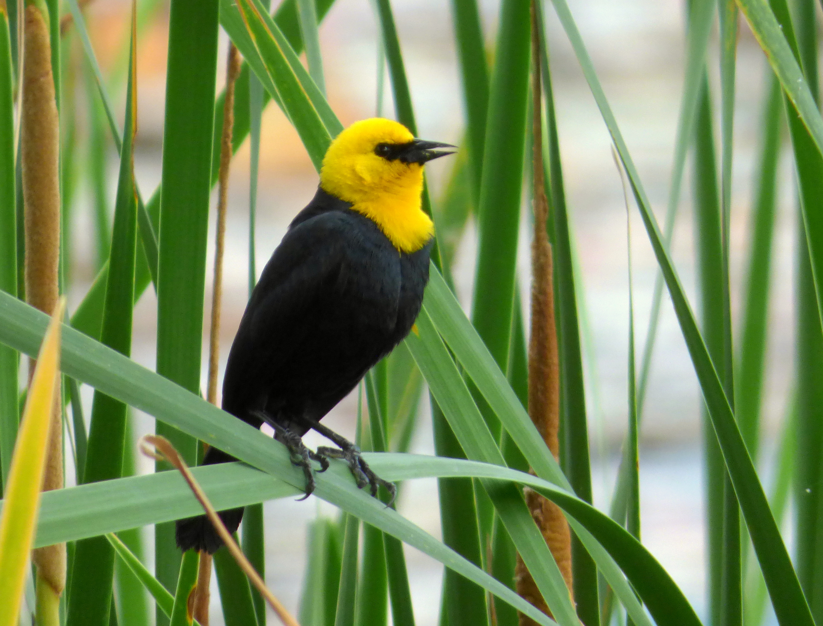 Chrysomus icterocephalus (Monjita pantanear) - Macho